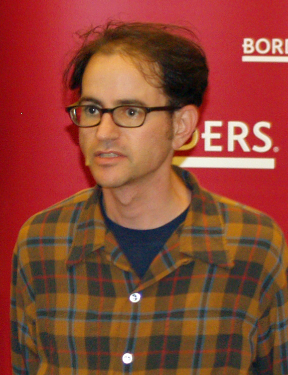 Eric Drysdale by David Shankbone